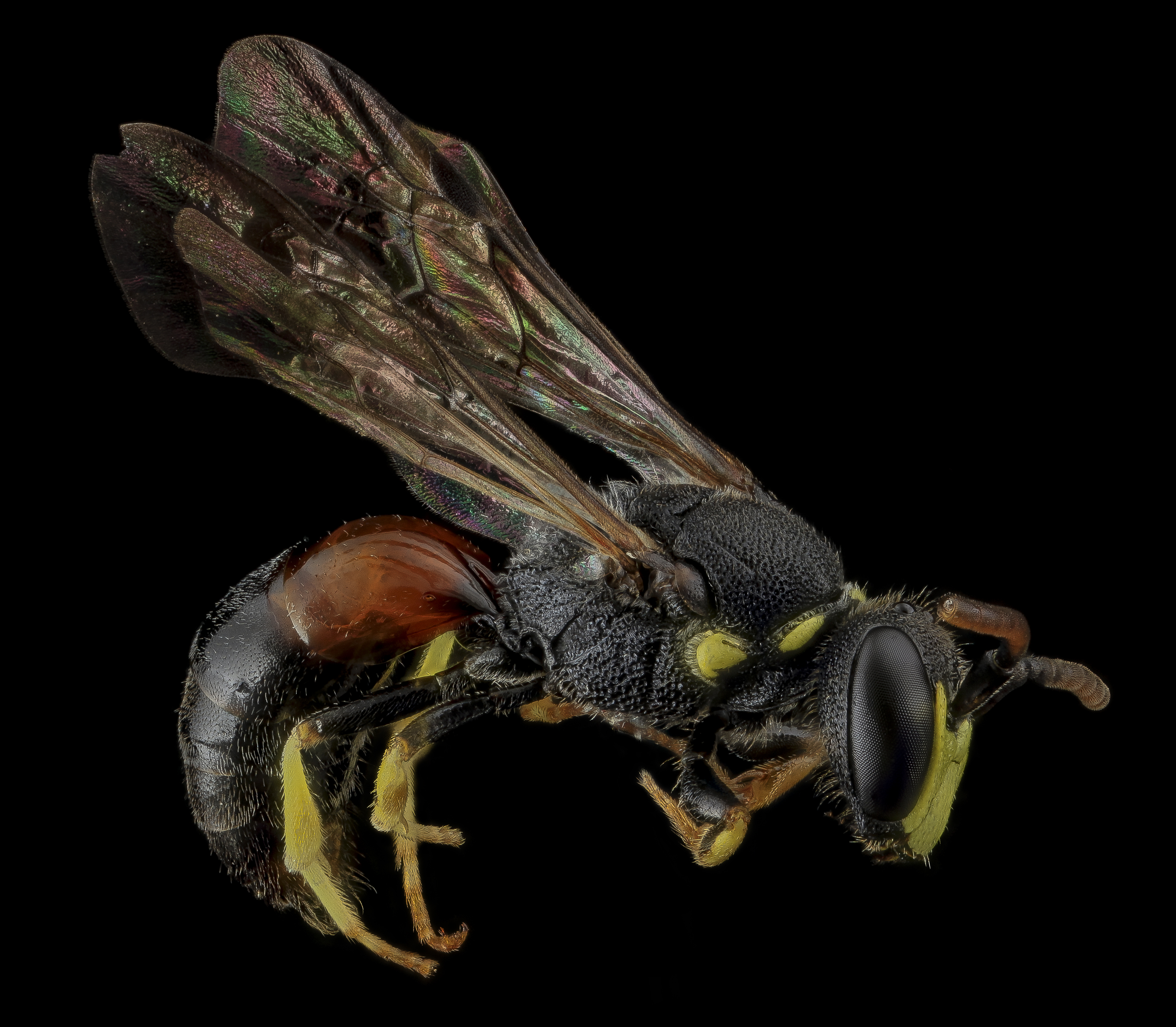 Hylaeus ornatus, male. A wetlands bee, usually with red on the basal segments of the abdomen but not always. The males with extensive yellow on their faces. Here from the marshes of Kent County, Maryland